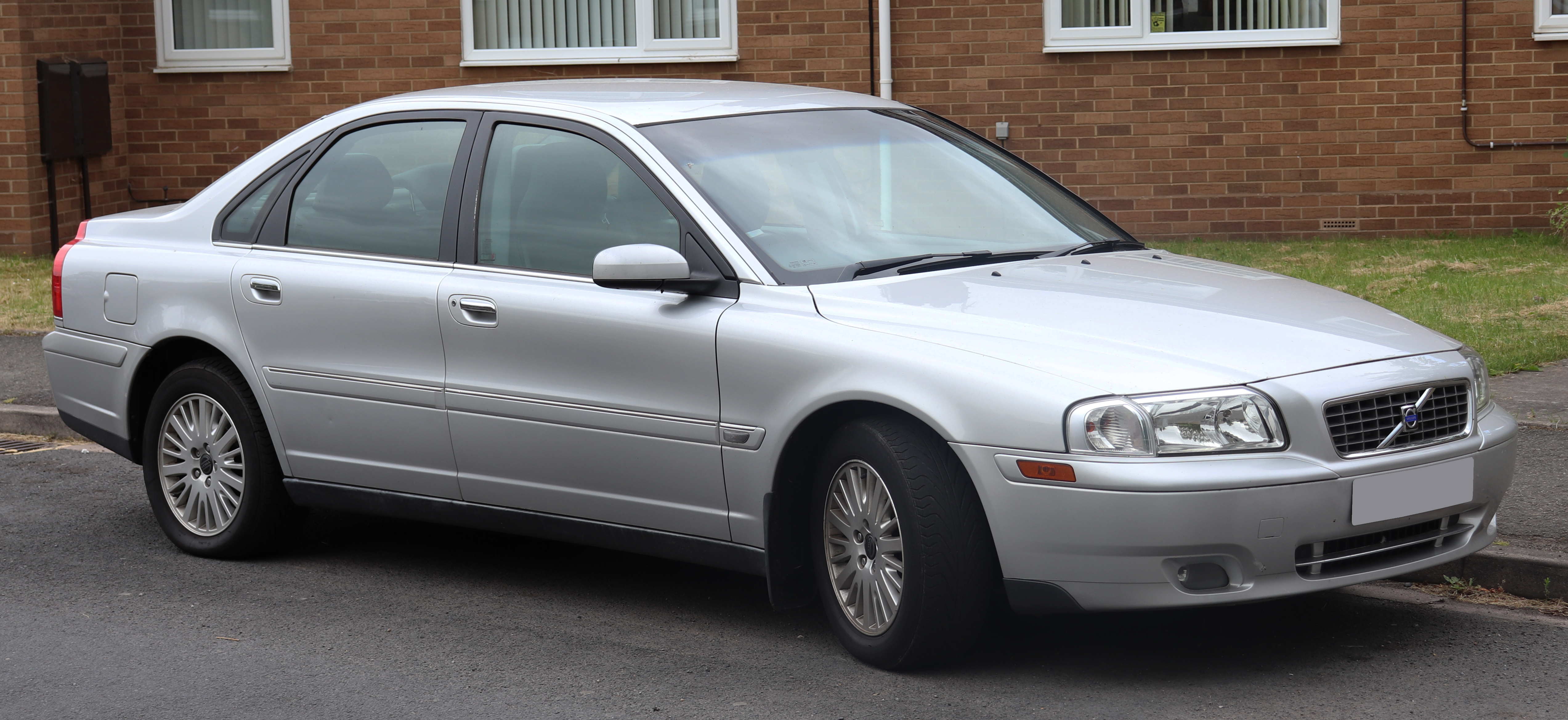 2004 Volvo S80 S Automatic 2.4 Front Taken in Warwick